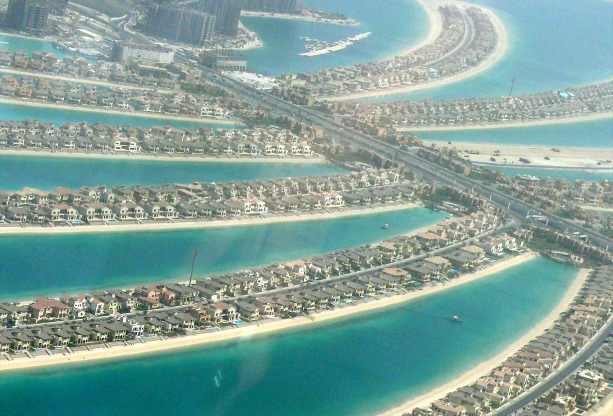 This is an aerial view of the Palm Jumeirah, located in Dubai, United Arab Emirates, on 8 May 2008. This photo was taken from a helicopter ride courtesy of Nakheel.